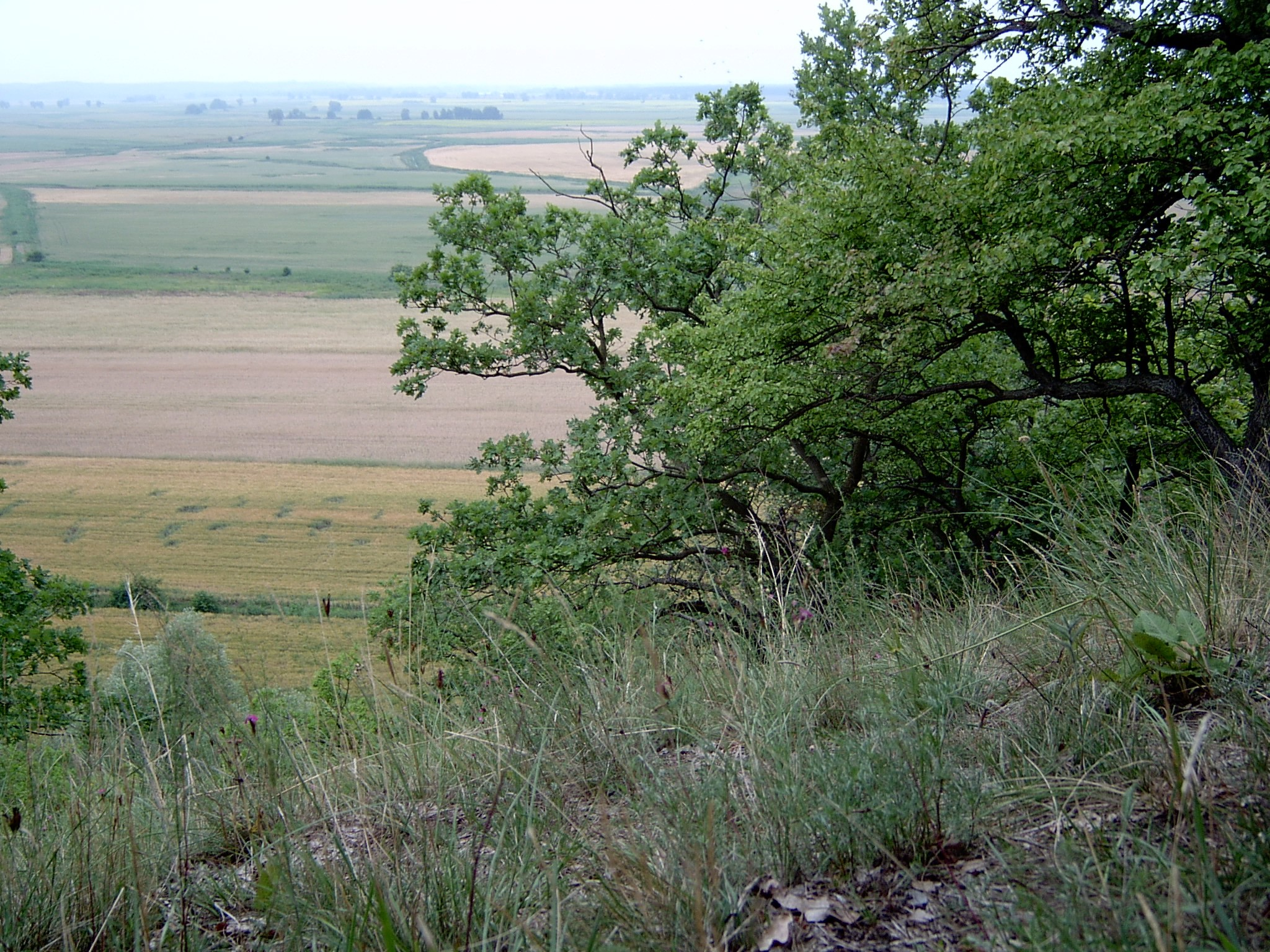 Quercus pubescens forest in Bielinek (NW Poland)